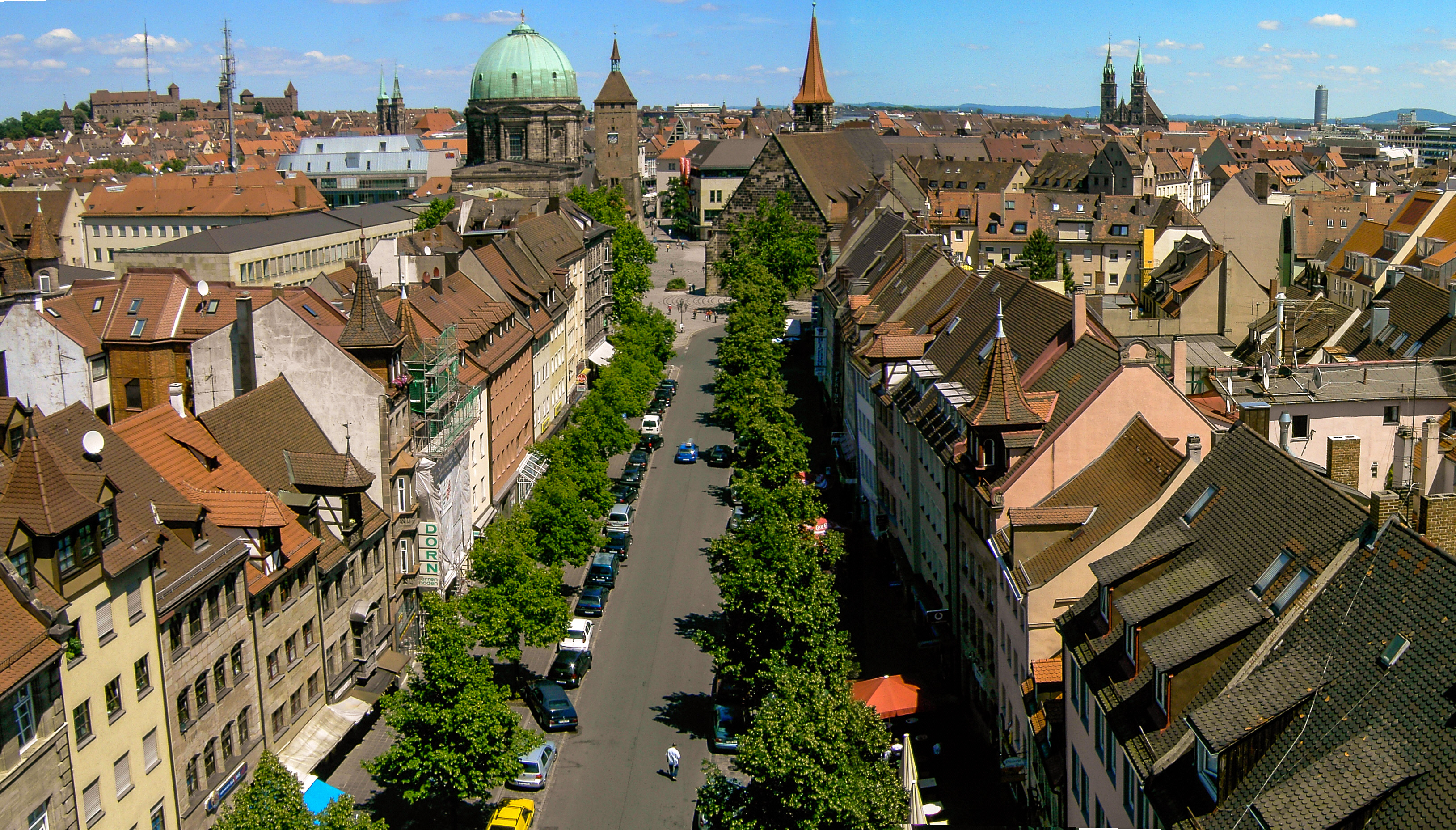 Old town of Nuremberg, view from Spittlertor-Tower, from Left to right - Castle (Kaiserburg), St. Sebald Church, Elisabeth-Church (Rundkuppel), White Tower (Weisser Turm), right site of Ludwigstraße - Jakobschurch, St. Lorenz Church and Businesstower "Nürnberger Versicherung". first upload on: * Source: own foto by me * Fotograph/Author: mb1302 (Manfred Braun) * Date of Image: 16. Juli 2006, 13:46 ==